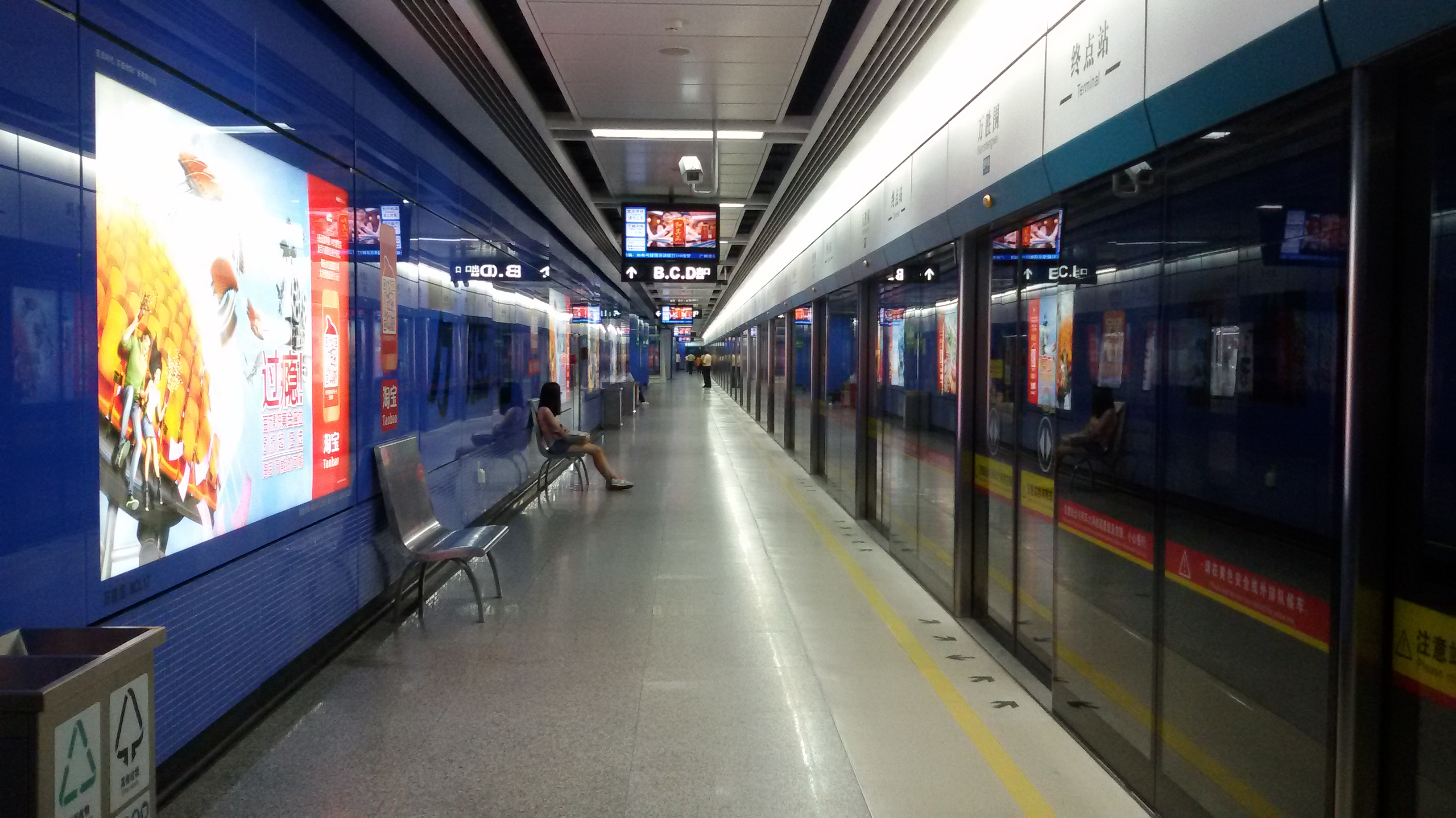 Station Platform for Line 8 at Wanshengwei Station in Guangzhou Metro. 粵語: 廣州地鐵，萬勝圍站嘅8號綫終點月台。